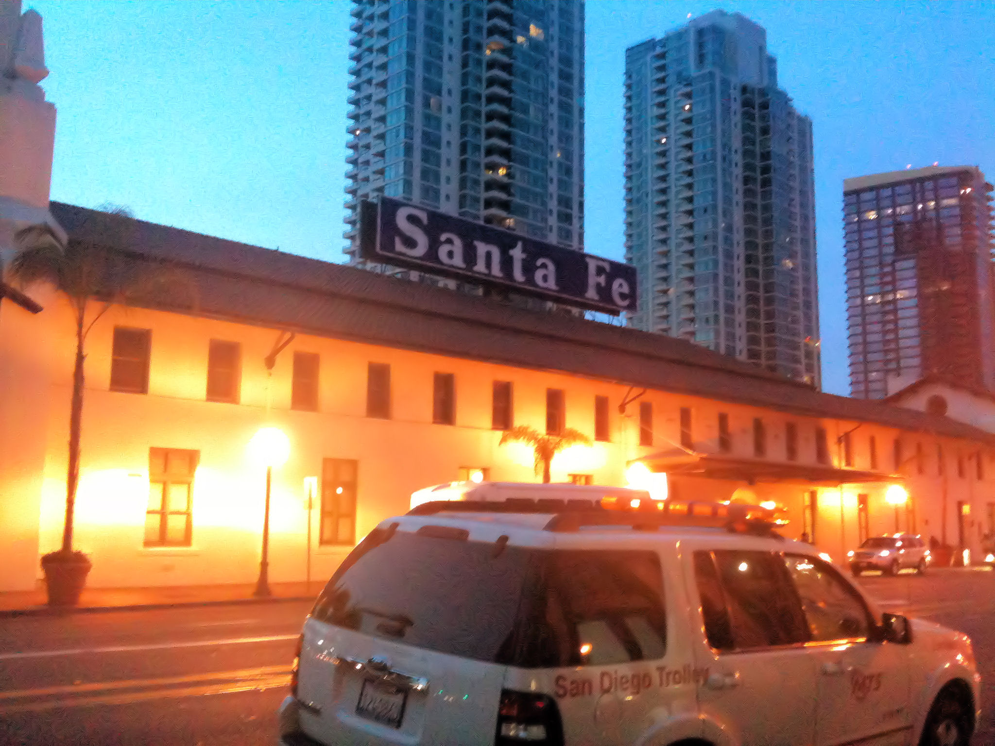 The Santa Fe Union Station in downtown San Diego, California. A wing now houses the downtown branch of the Museum of Contemporary Art San Diego.